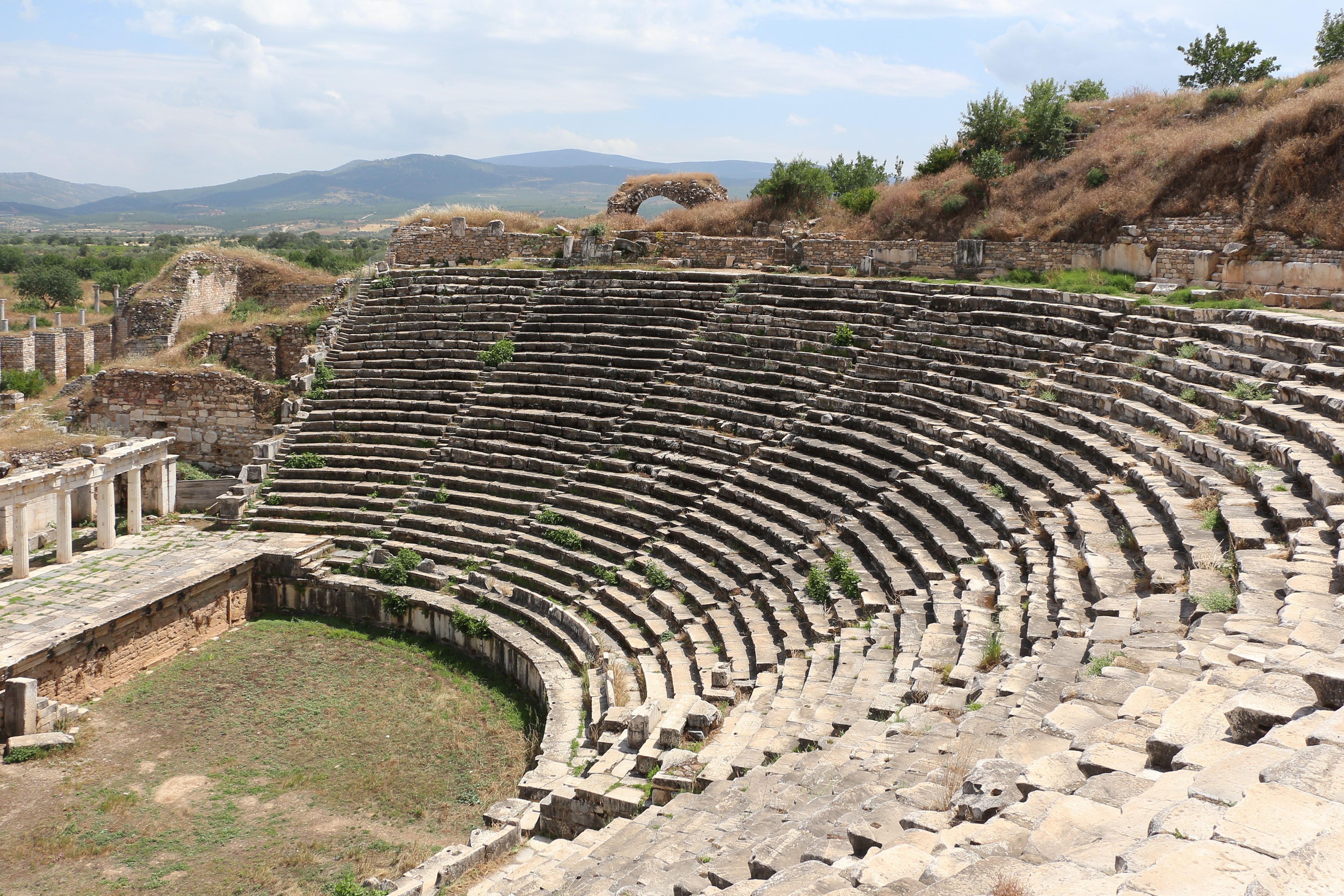 Ancient Roman Theatre, Aphrodisias, Turkey